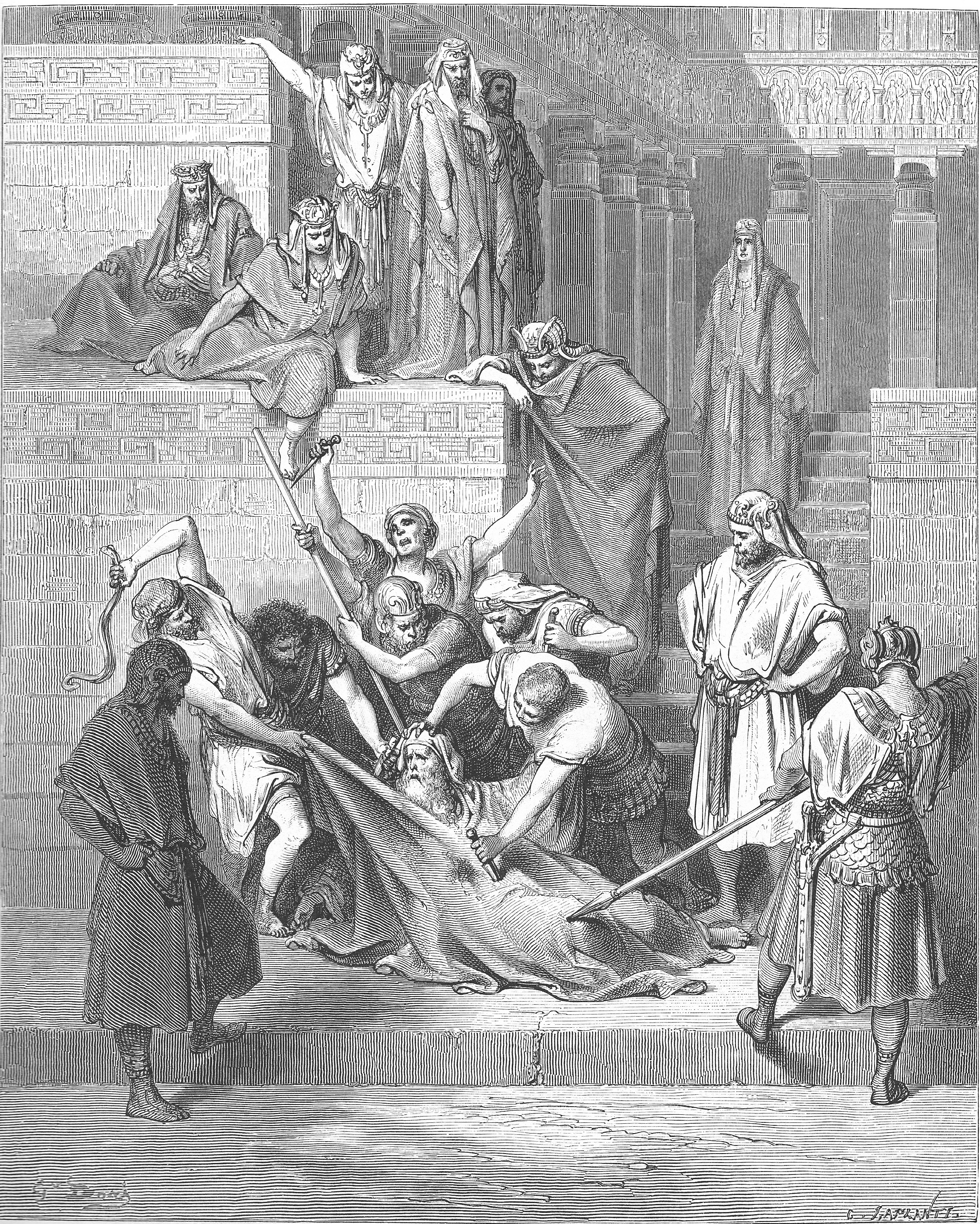 The Martyrdom of Eleazar the Scribe (2 Масс. 6:18-31)